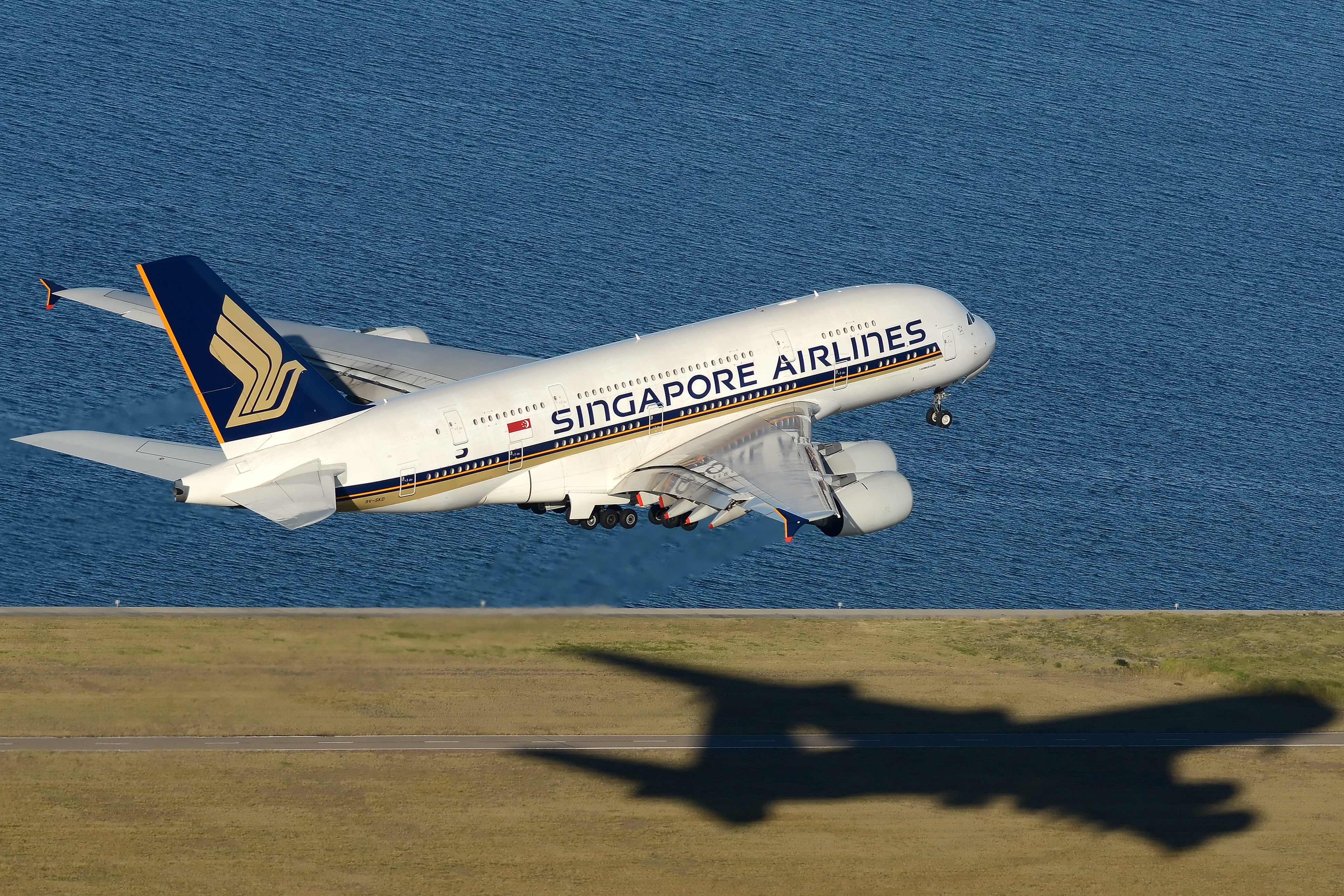 Singapore Airlines Airbus A380 (9V-SKD) operating as SQ222 taking off in a southerly direction on Runway 16R at Sydney's Kingsford Smith Airport. Photo taken from a chopper flying parallel at approx 500ft. Focal length 200mm on F8 aperture.